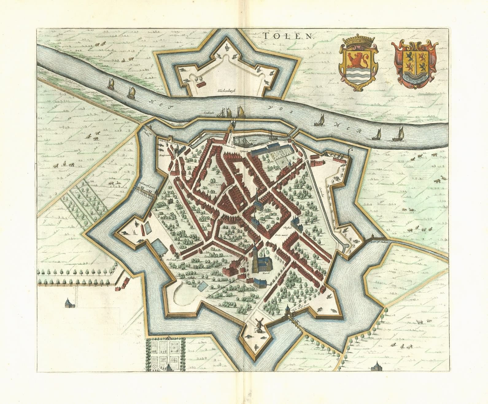 title=Tolen; size=41 x 50 cm